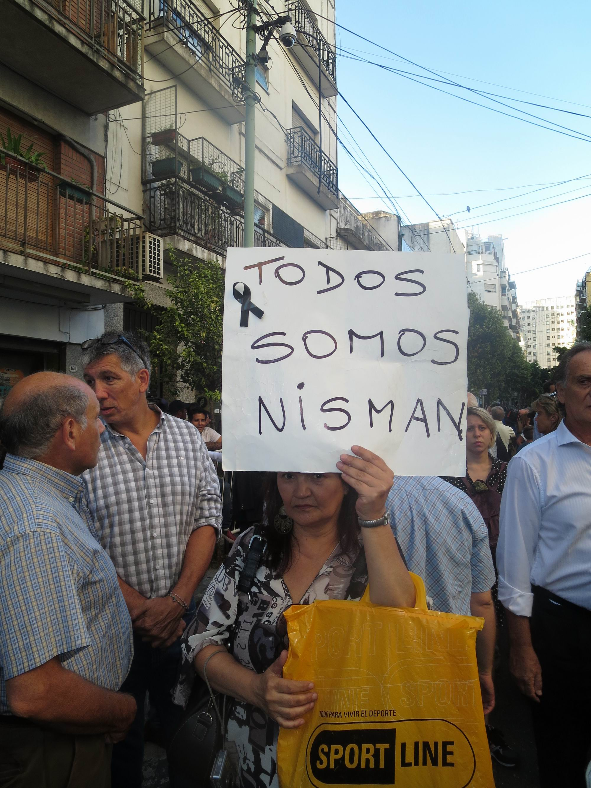 Argentines have been taking to the streets in 2015 to demand justice for the dead prosecutor Alberto Nisman